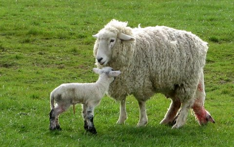 A ewe's second twin being born.